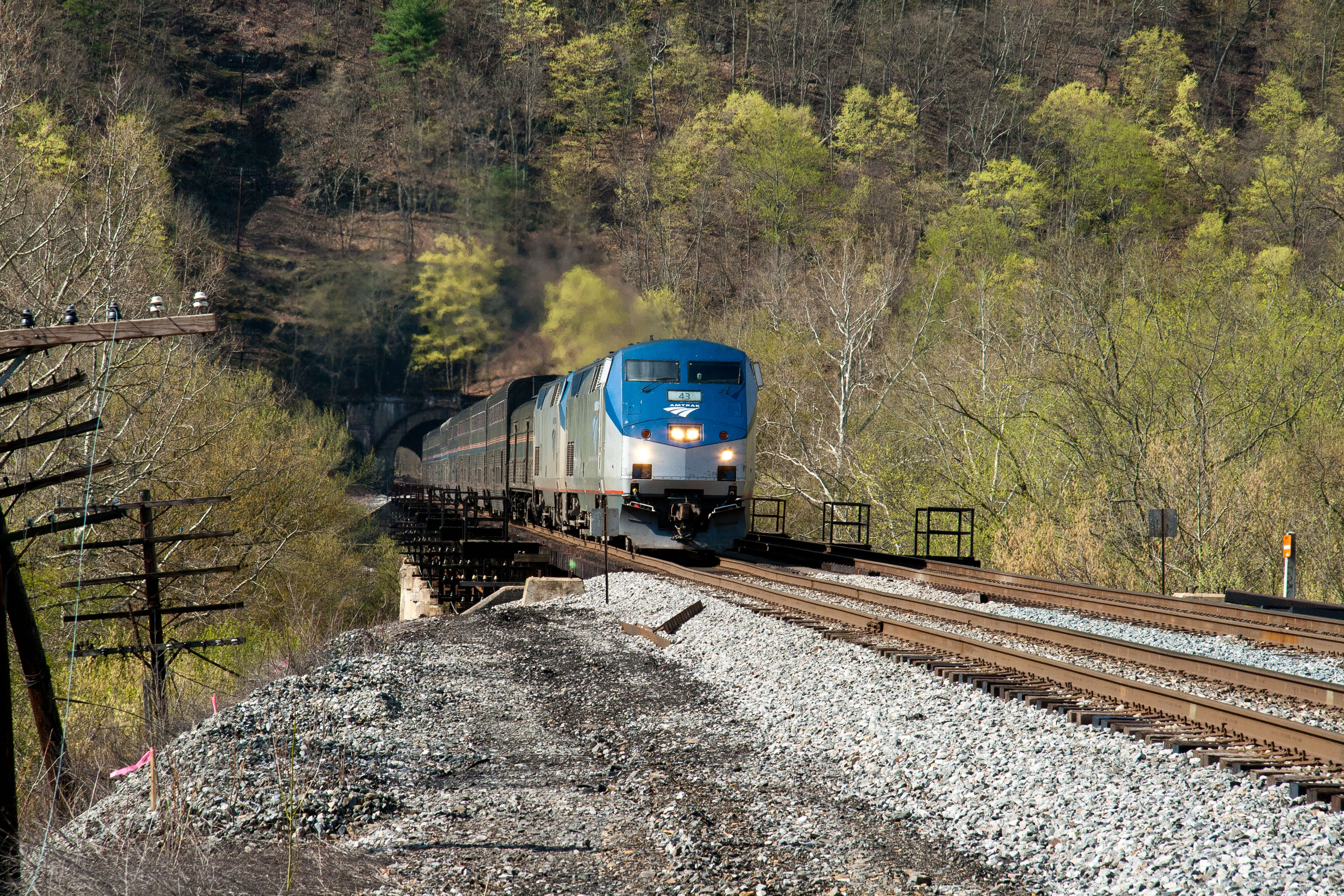 Amtrak train # 30, the Capitol Limited; exits Graham Tunnel and crosses the Potomac River in Magnolia, WV. This is part of the famed B&O built Magnolia Cutoff.